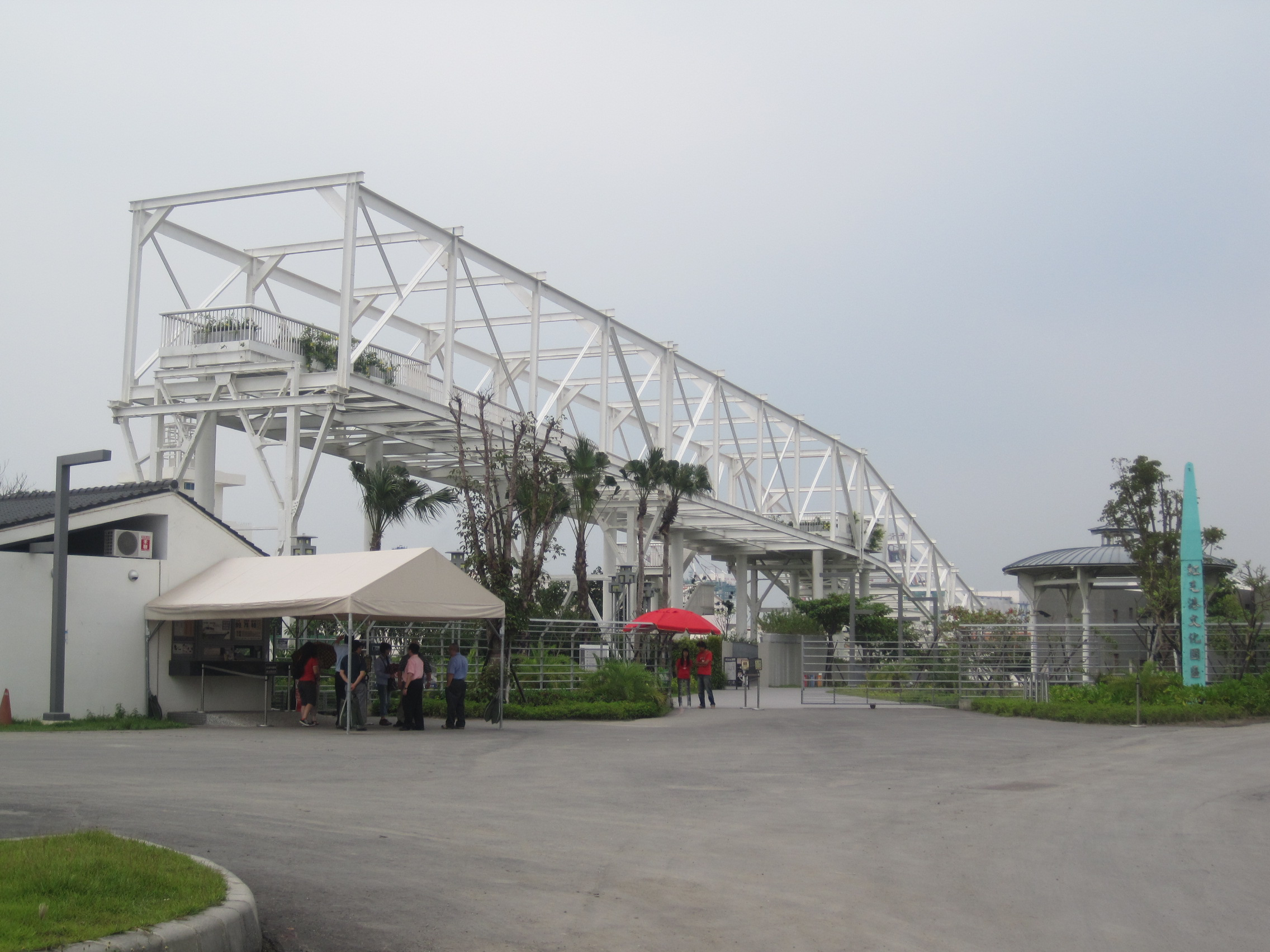 Sky Walk, Hongmaogang Cultural Park, Siaogang District, Kaohsiung City, Taiwan